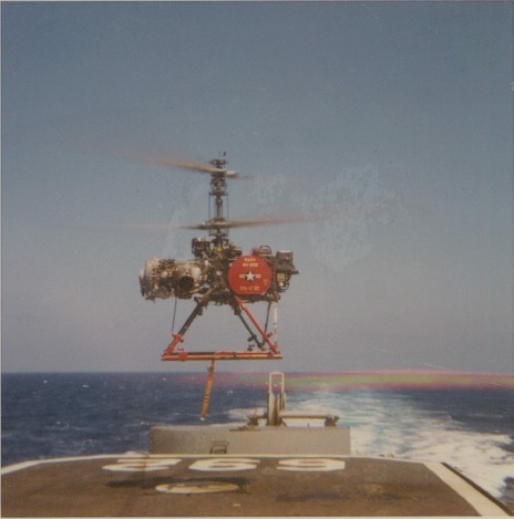 A QH-50 DASH-drone hovering over the flight deck of the U.S. Navy destroyer USS Allen M. Sumner (DD-692), in 1969.